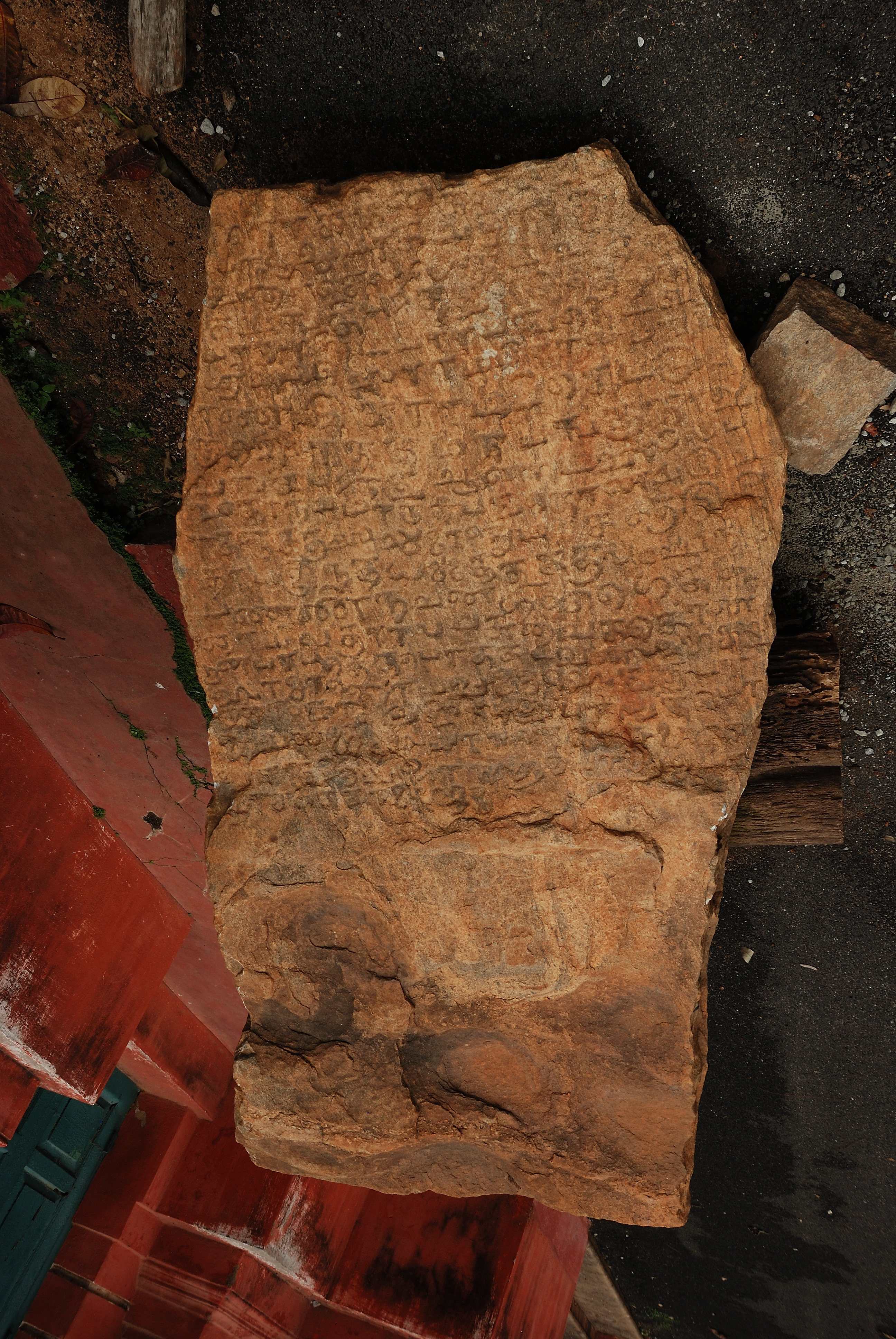 inscriptionstonesofbangalore